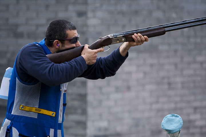 Luigi Lodde Beijing 2010